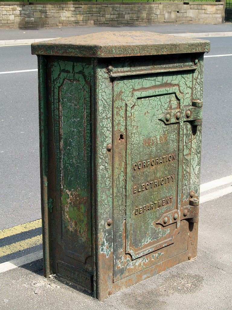 Bolton Corporation Electricity Department box on Bury Road, Breightmet near the junction with Torridon Road. Tuesday 1st July 2008